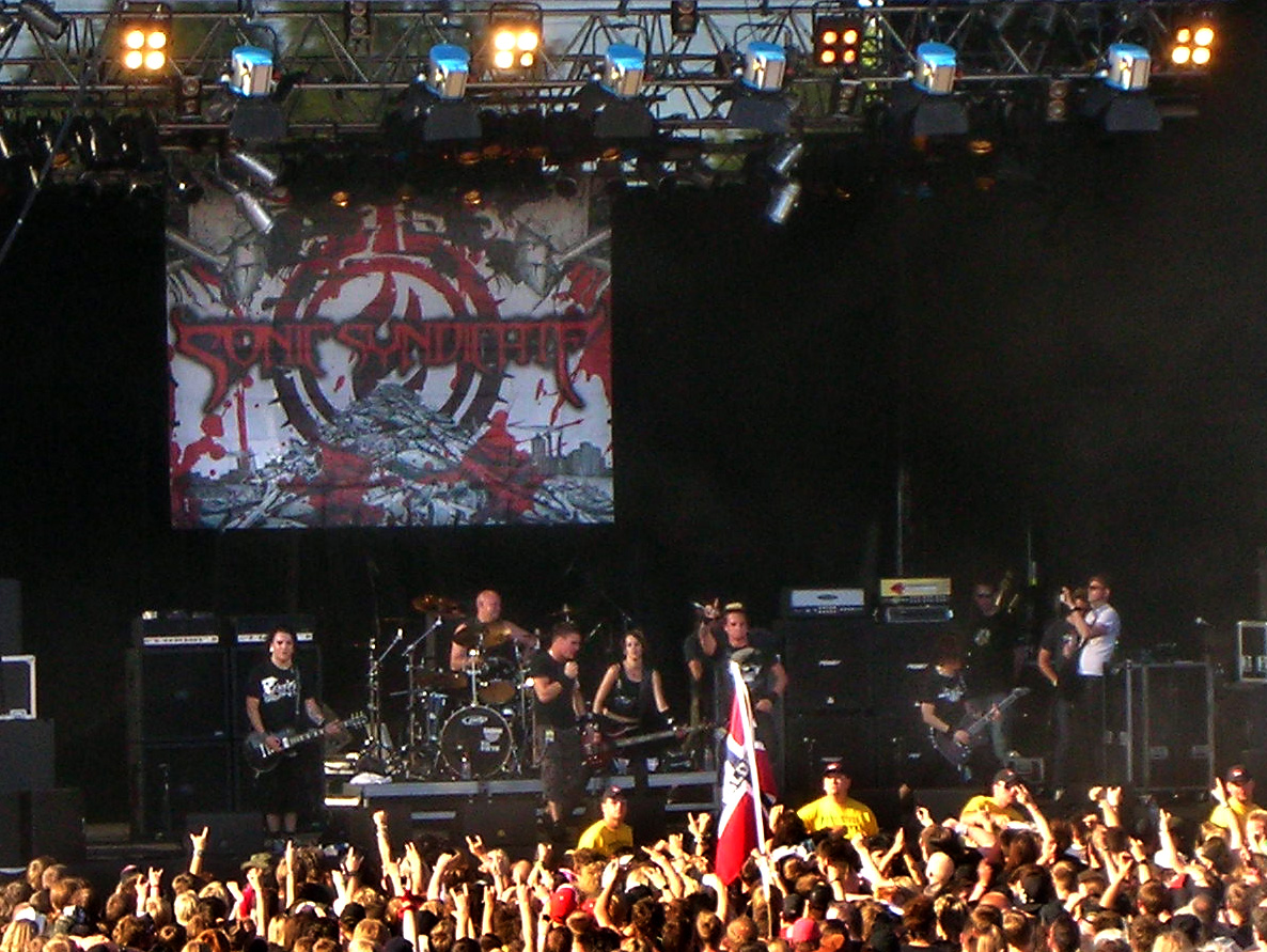 Swedish melodic death metal band Sonic Syndicate at the Sweden Rock Festival in 2008